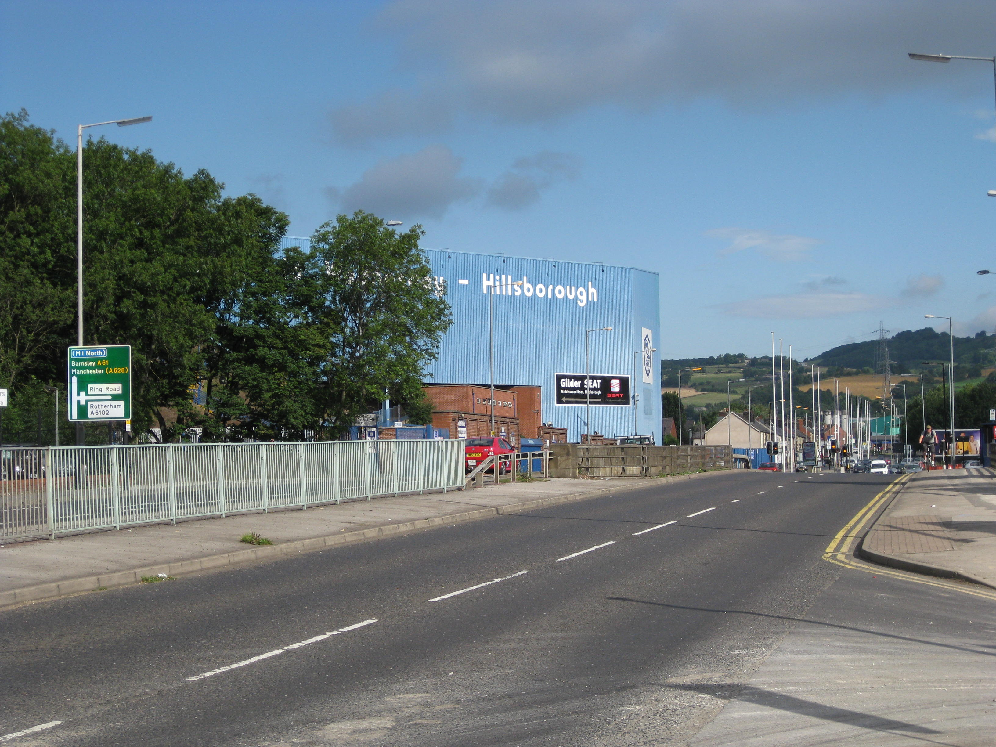 The A61 road going north past Sheffield Wednesday football ground (Hillsborough Stadium) towards Grenoside. At this point called Penistone Road North.